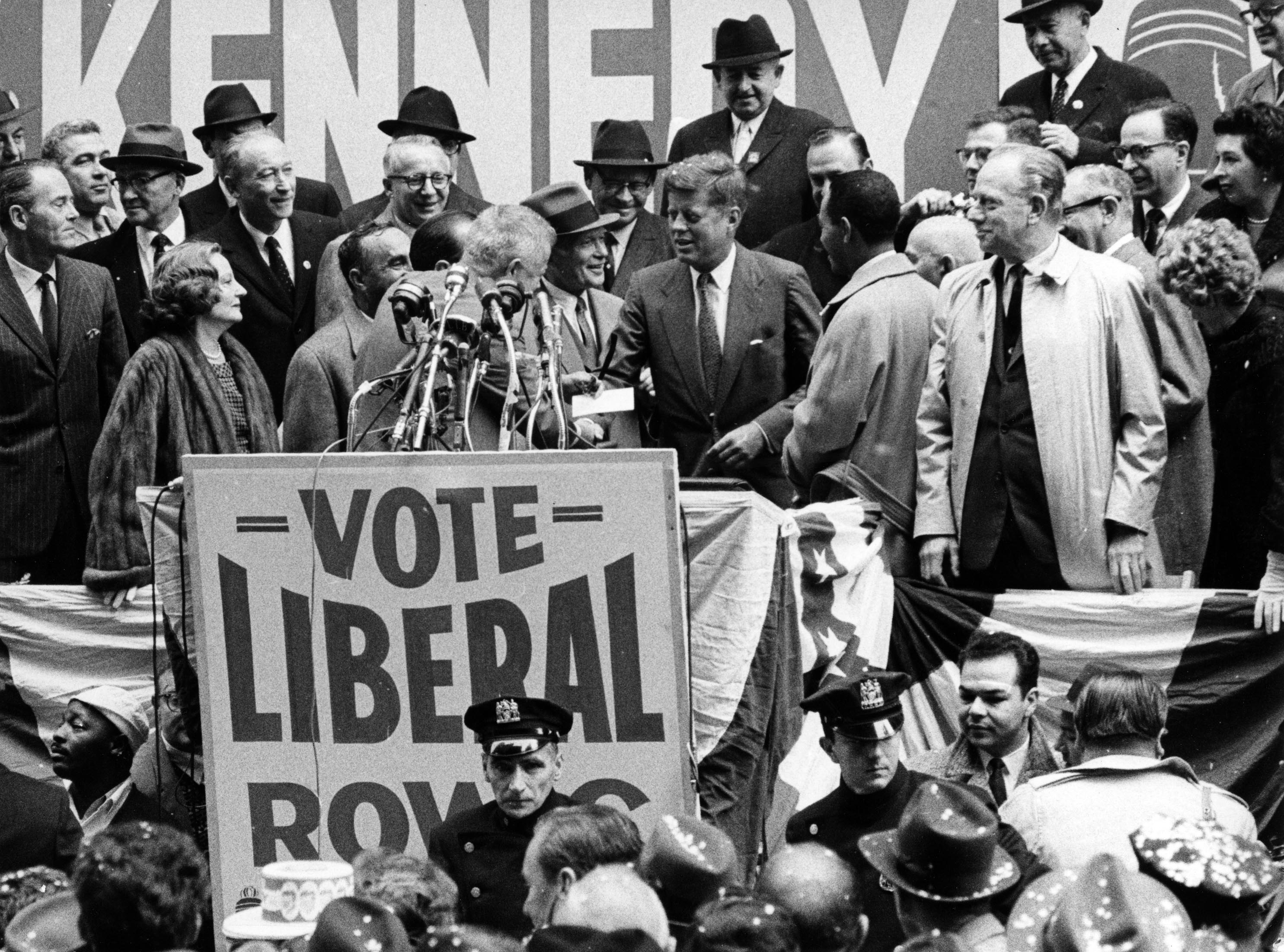 Title: Rally in support of John F. Kennedy for president. David Dubinsky is at the podium. Date: Unknown Photographer: Unknown Photo ID: 5780PB16F7H Collection: International Ladies Garment Workers Union Photographs (1885-1985) Repository: The Kheel Center for Labor-Management Documentation and Archives in the ILR School at Cornell University is the Catherwood Library unit that collects, preserves, and makes accessible special collections documenting the history of the workplace and labor relations. Notes: No additional information available. Copyright: The copyright status of this image is unknown. It may also be subject to third party rights of privacy or publicity. Images are being made available for purposes of private study, scholarship, and research. The Kheel Center would like to learn more about this image and hear from any copyright owners who are not properly identified so that we may make the necessary corrections. Tags: Kheel Center for Labor-Management Documentation and Archives,Cornell University Library,Crowds, Labor Leaders, Public Figures Voting